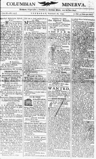 Columbian Minerva; Date: 02-28-1799; (Dedham, Massachusetts) Further information: American Antiquarian Society. Catalog.